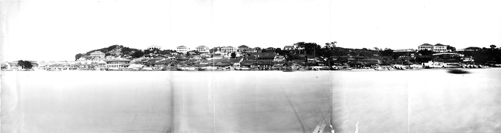 The River-side of Cangshan in the late 19th Century